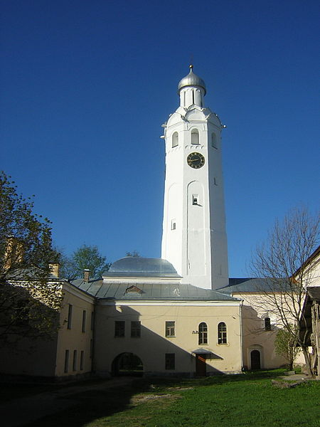 Novgorod kremlin clock tower, seen from the north-east